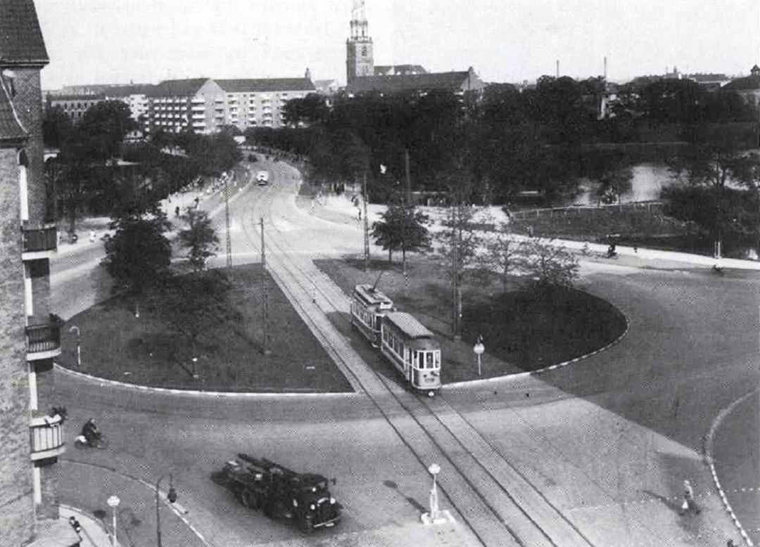 The roundabout at Christmas Møllers Plads in Copenhagen, Denmark